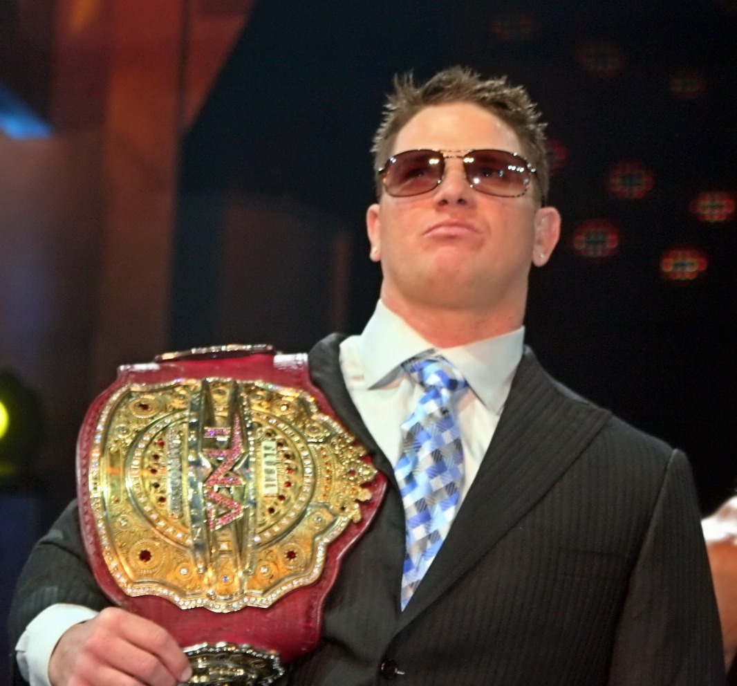 Professional wrestler A.J. Styles during a TNA Impact! taping with the TNA Television Championship.